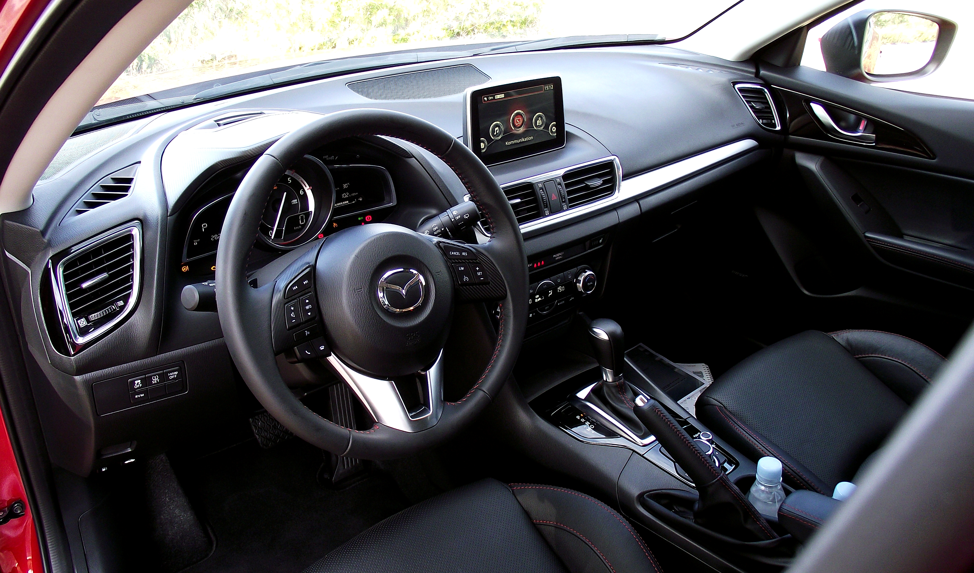 Mazda3 BM Hatchback Sports-Line 2.2 SKYACTIV-D 150 Automatic Transmission Cockpit Interior